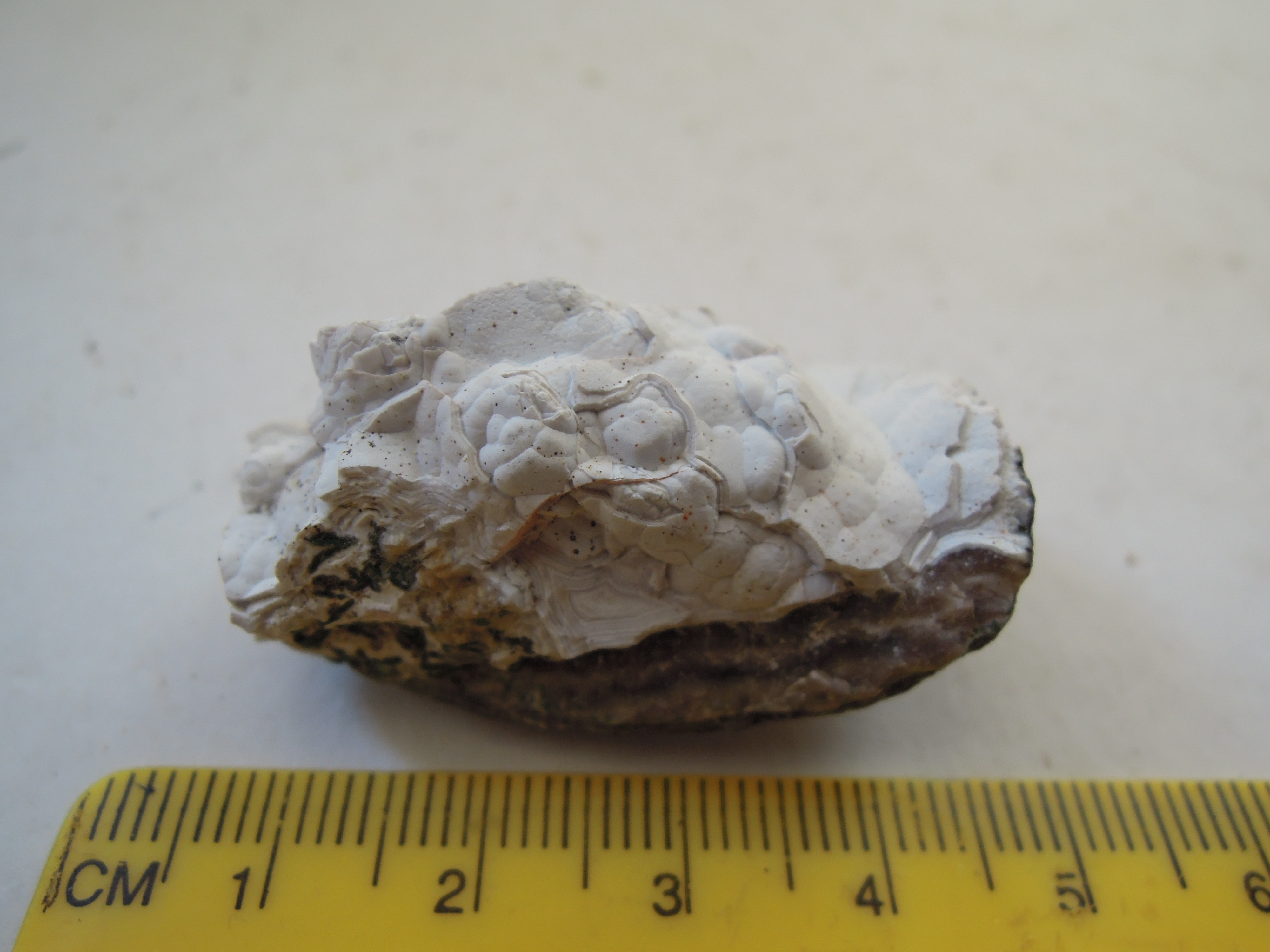 cacholong (opal) - SiO2·nH2O locality: Rudice, Czech Republic photo (c) 2016 Jan Helebrant